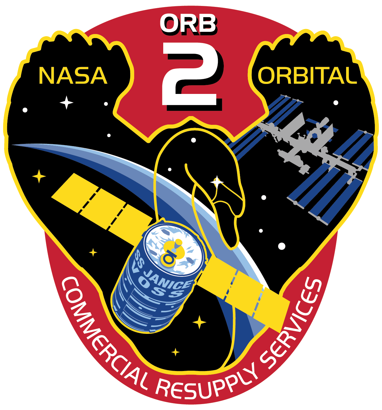 The NASA insignia for Orbital's Orb-2 resupply flight